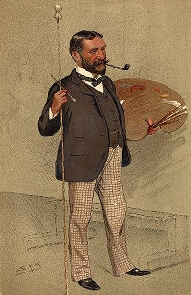 Caricature of Samuel Luke Fildes (1843-1927). Caption read "He painted 'the Doctor'".